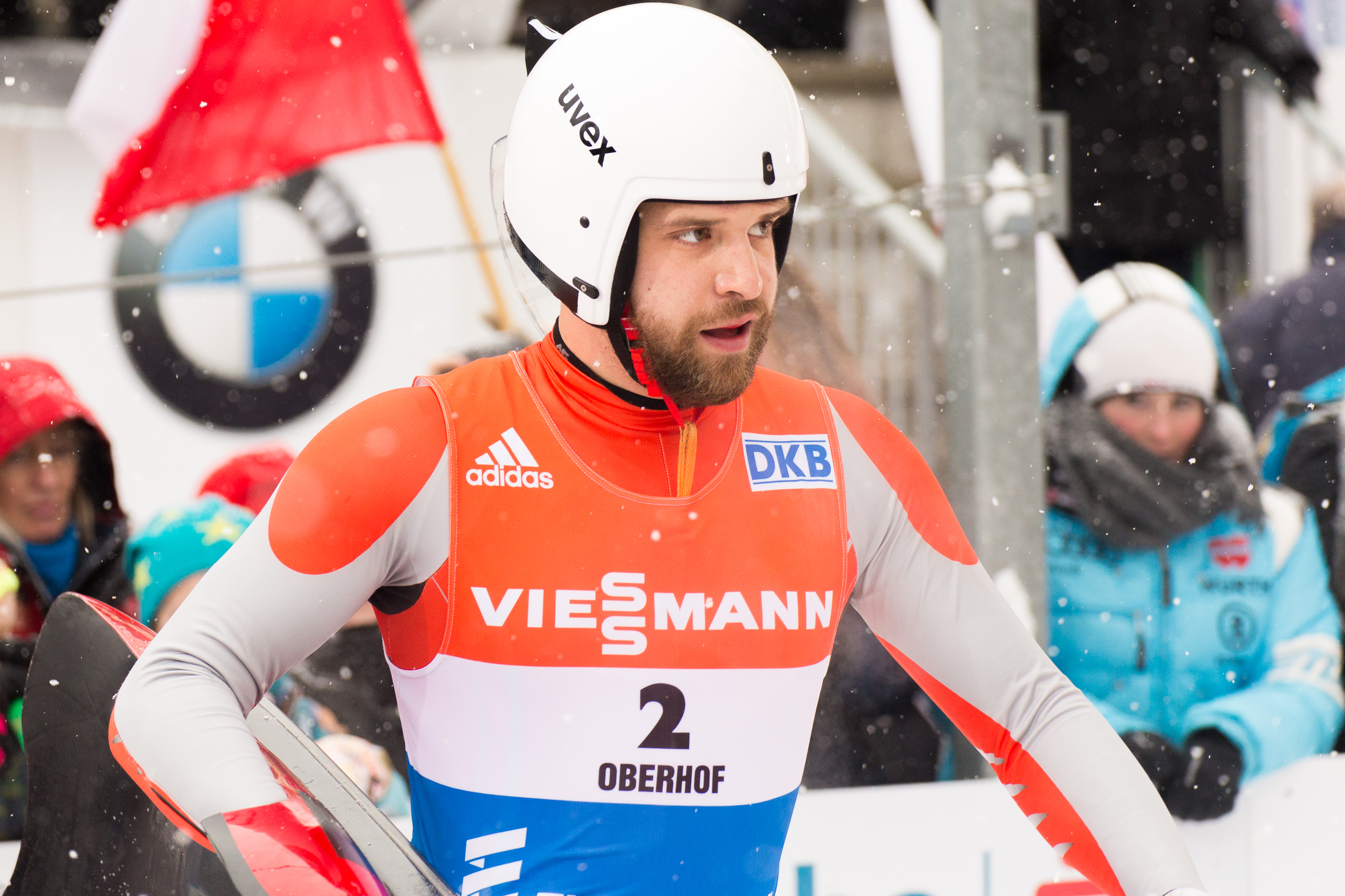 Luge world cup Oberhof 2016-01-17